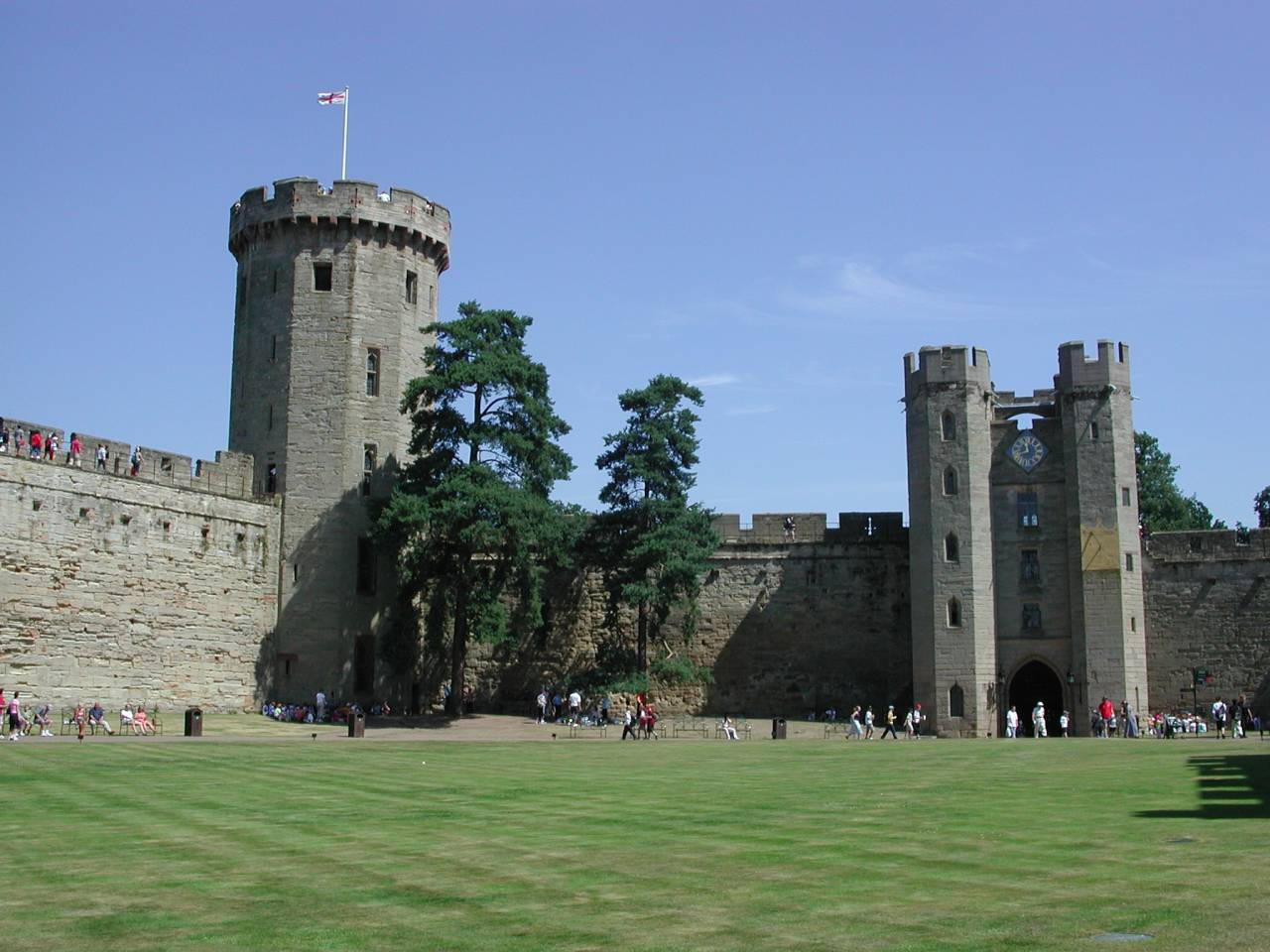 Warwick Castle, Innenhof - Public Domain, selbst fotografiert